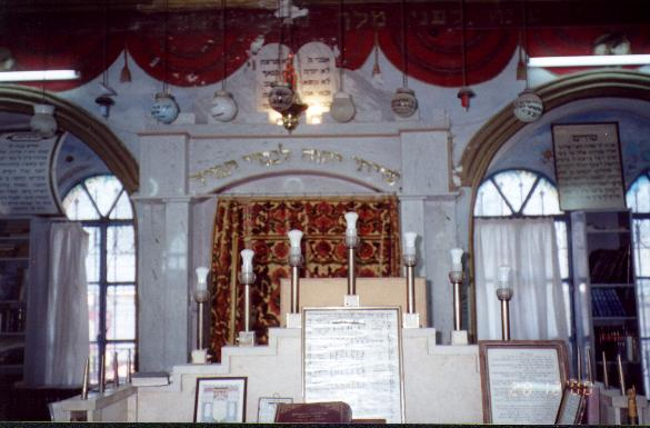 The Suleimanoff Synagogue in the Bukharan neighborhood